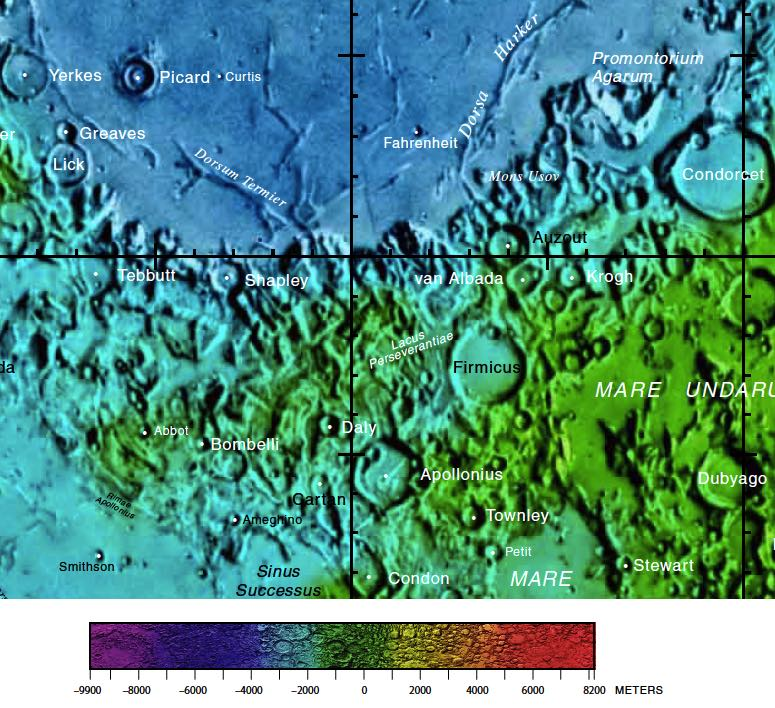 Part of the USGS Near side lunar chart used for the presentation